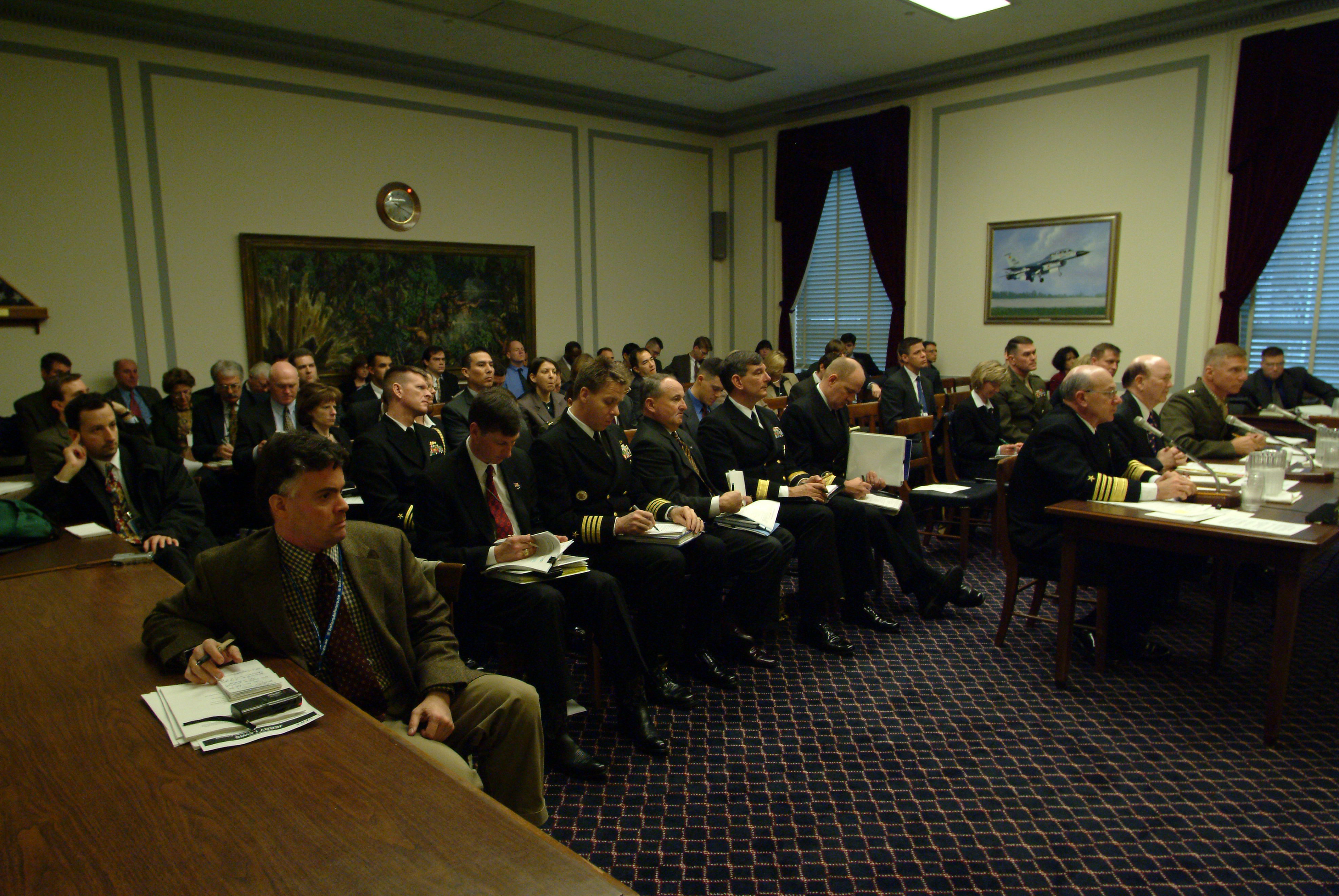 (From the left) Adm. Vern Clark, Chief of Naval Operations (CNO), the Honorable H.T. Johnson, Acting Secretary of the Navy, and Gen. Michael W. Hagee, Commandant of the Marine Corps answer questions pertaining to the 2004 fiscal year Navy and Marine Corps budget overview before the House Appropriations Committee. U.S. Navy photo by Chief Photographer's Mate Johnny Bivera.